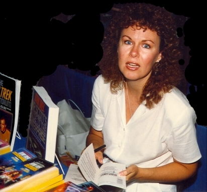 J.M. Dillard aka Jeanne Kalogridis - Aug 1989 - Star Trek Convention - Tampa, Florida Photo by Alan C. Teeple User:ACT1